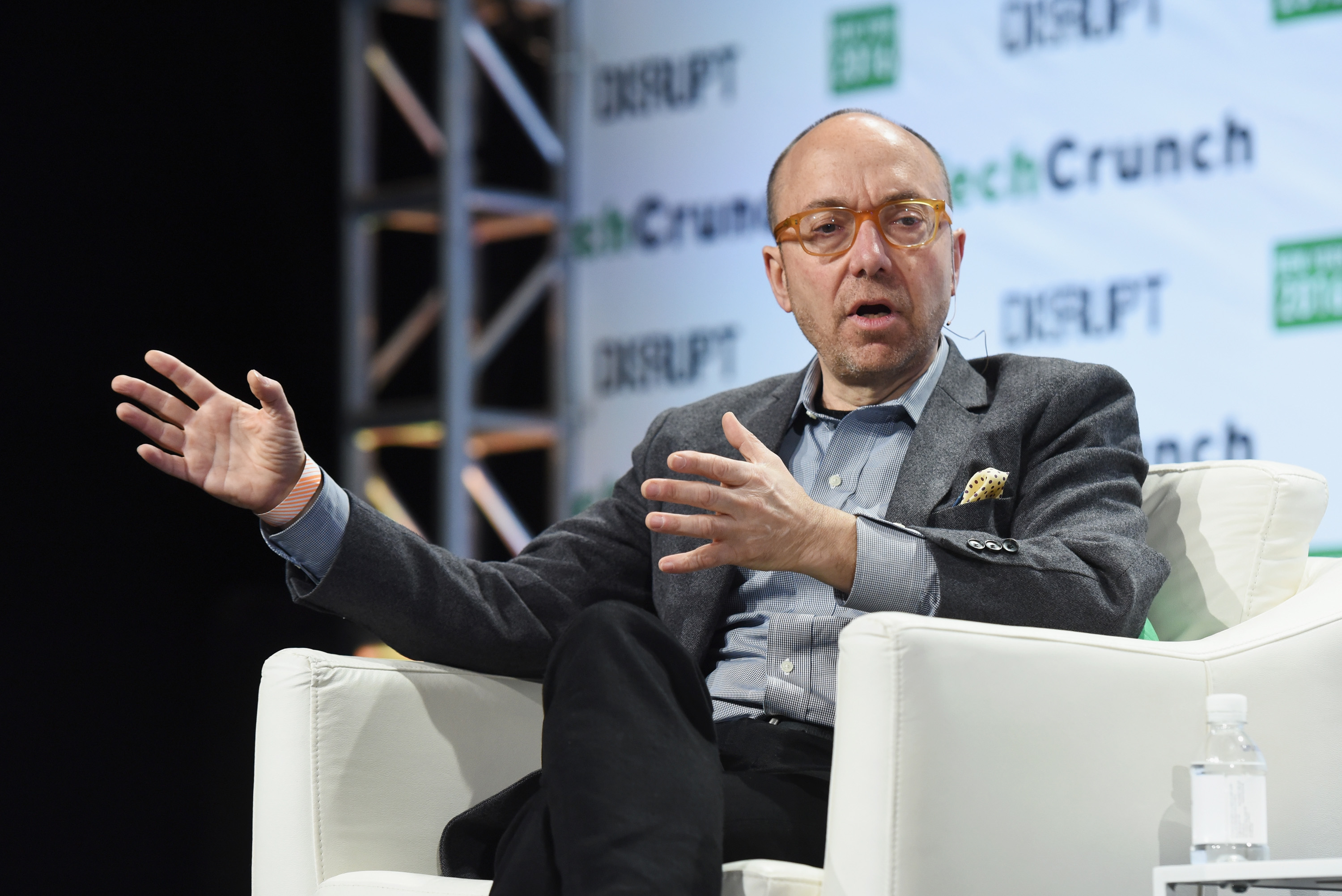 NEW YORK, NY - MAY 09: IAB president and CEO Randall Rothenberg speaks onstage during TechCrunch Disrupt NY 2016 at Brooklyn Cruise Terminal on May 9, 2016 in New York City. (Photo by Noam Galai/Getty Images for TechCrunch)